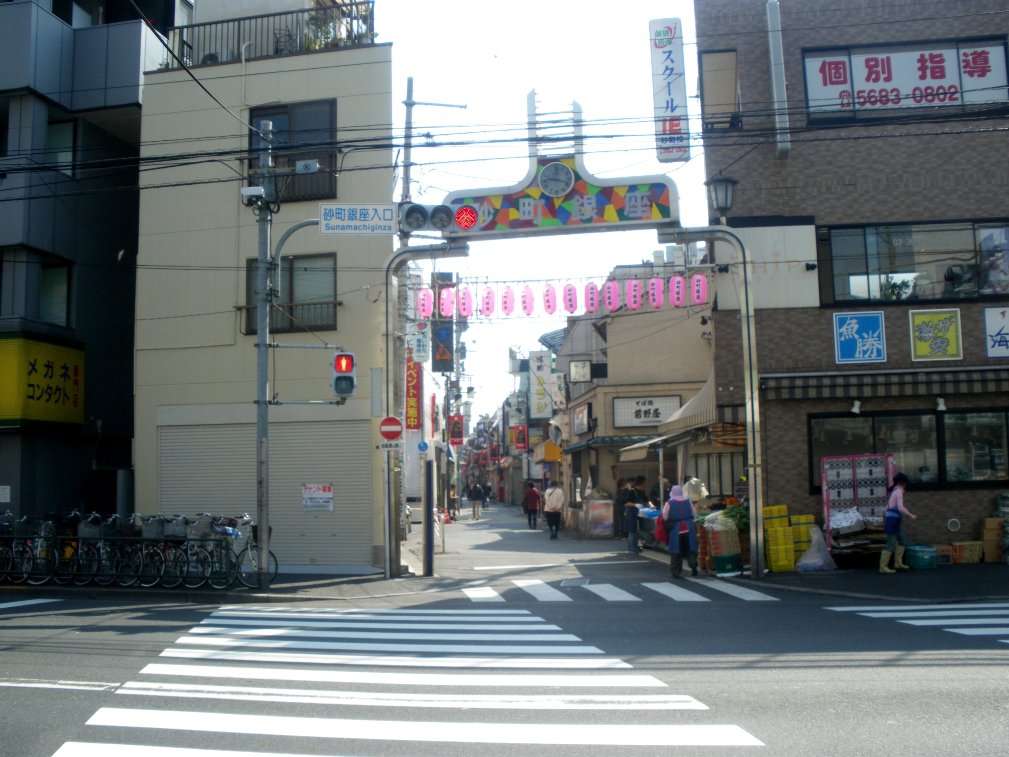 A photo of the entrance of Sunamachi Shopping Street,Kitasuna,Koto-ku,Tokyo,Japan.